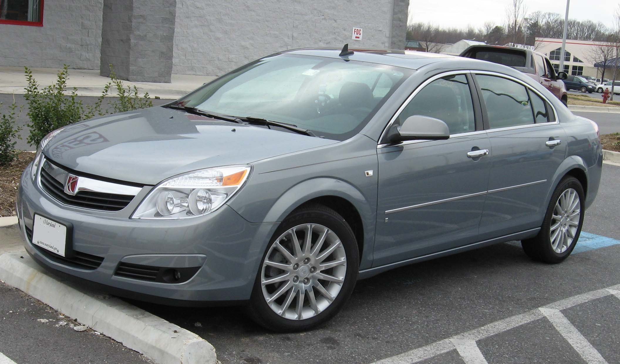 2007 Saturn Aura XR photographed in USA.